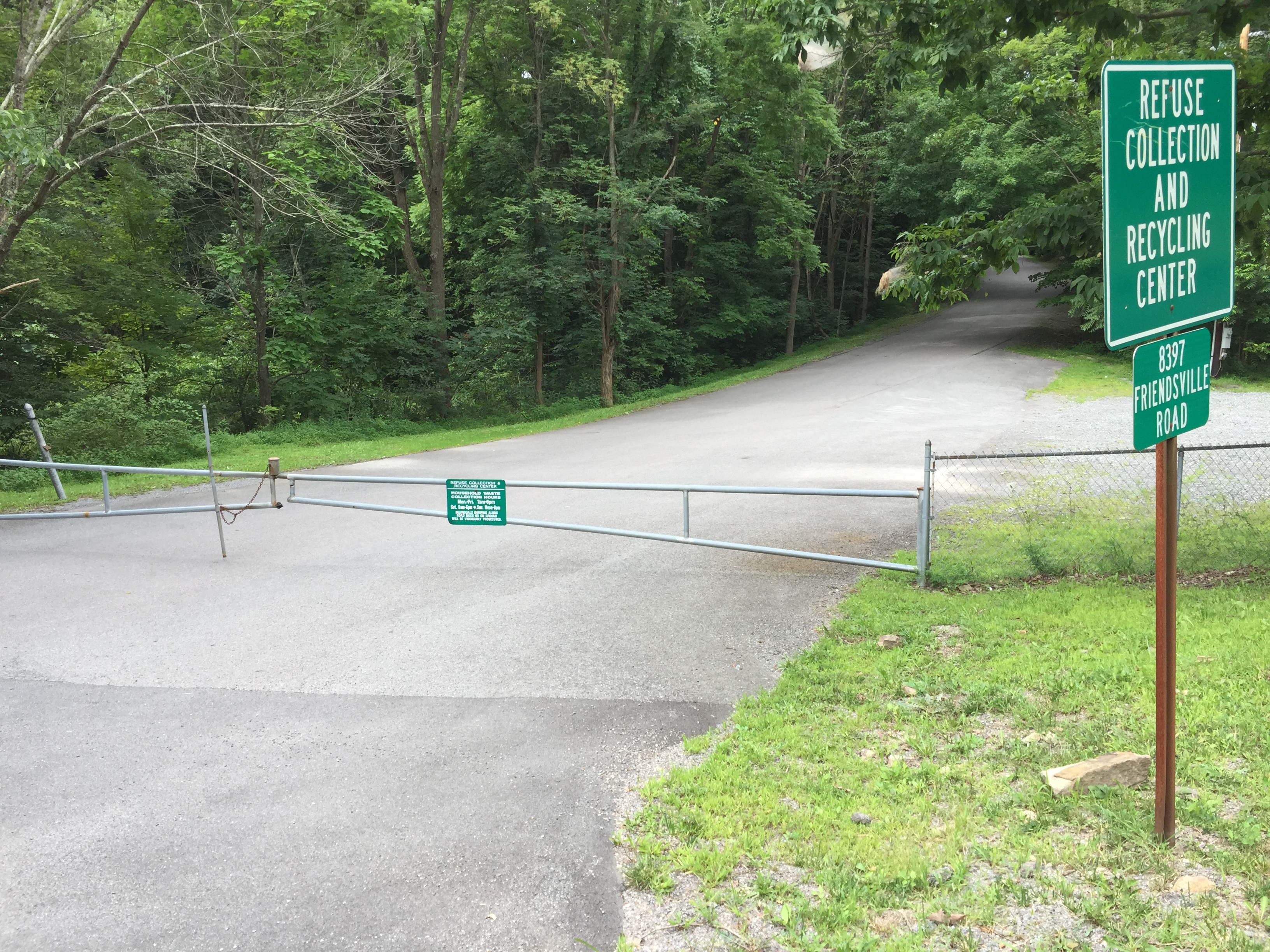 View west along Maryland State Route 828 at Maryland State Route 42 (Friendsville Road) just northwest of Friendsville in Garrett County, Maryland